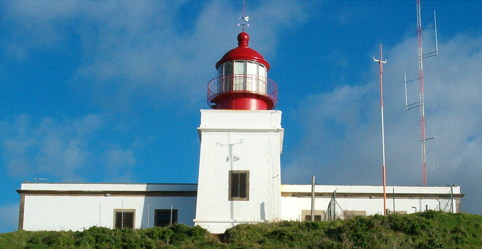 Farol_Ponta_do_Pargo_295_m